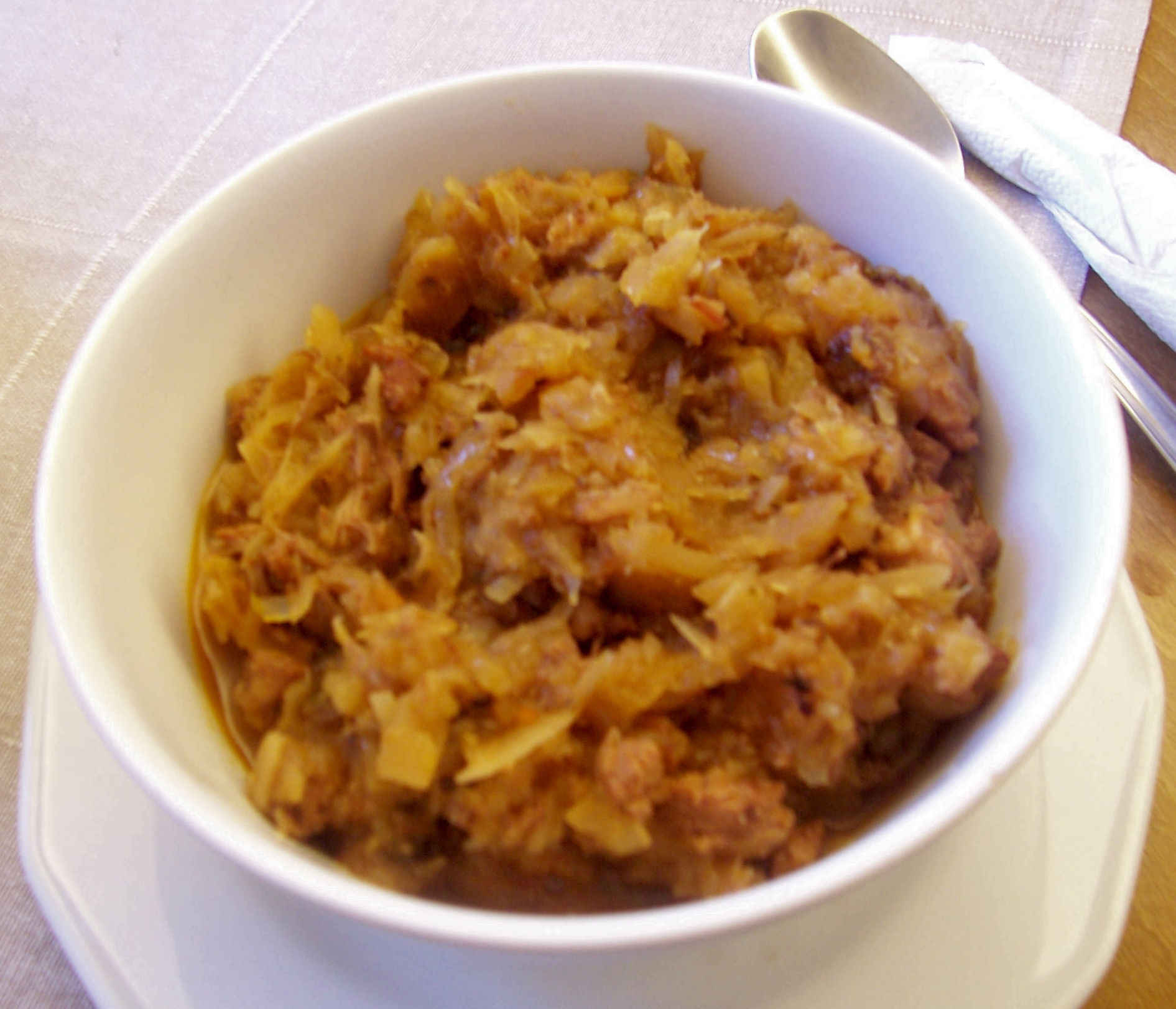 Bigos, in a cafe at Wawel Castle